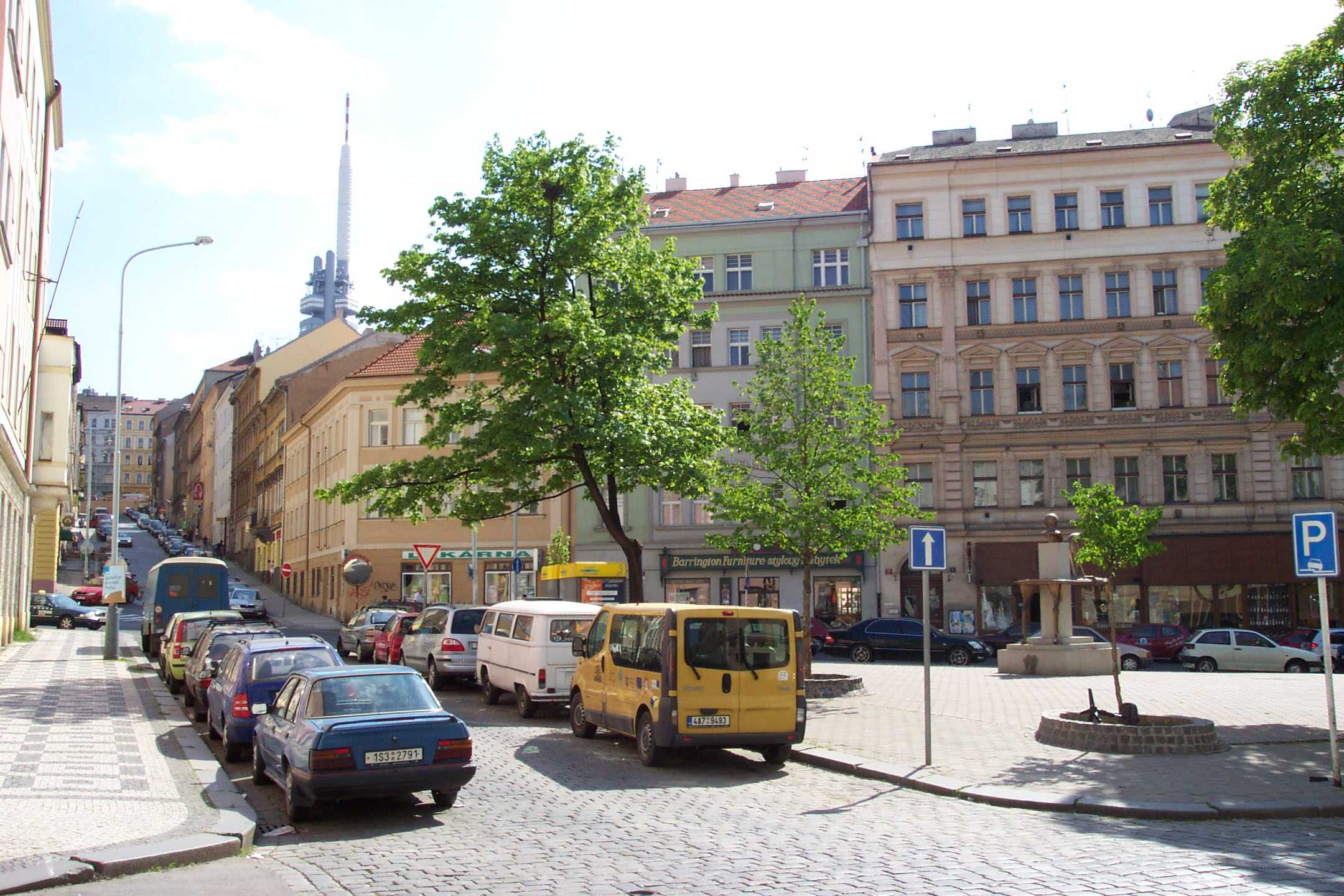 Prokop's Square at Praha-Žižkov